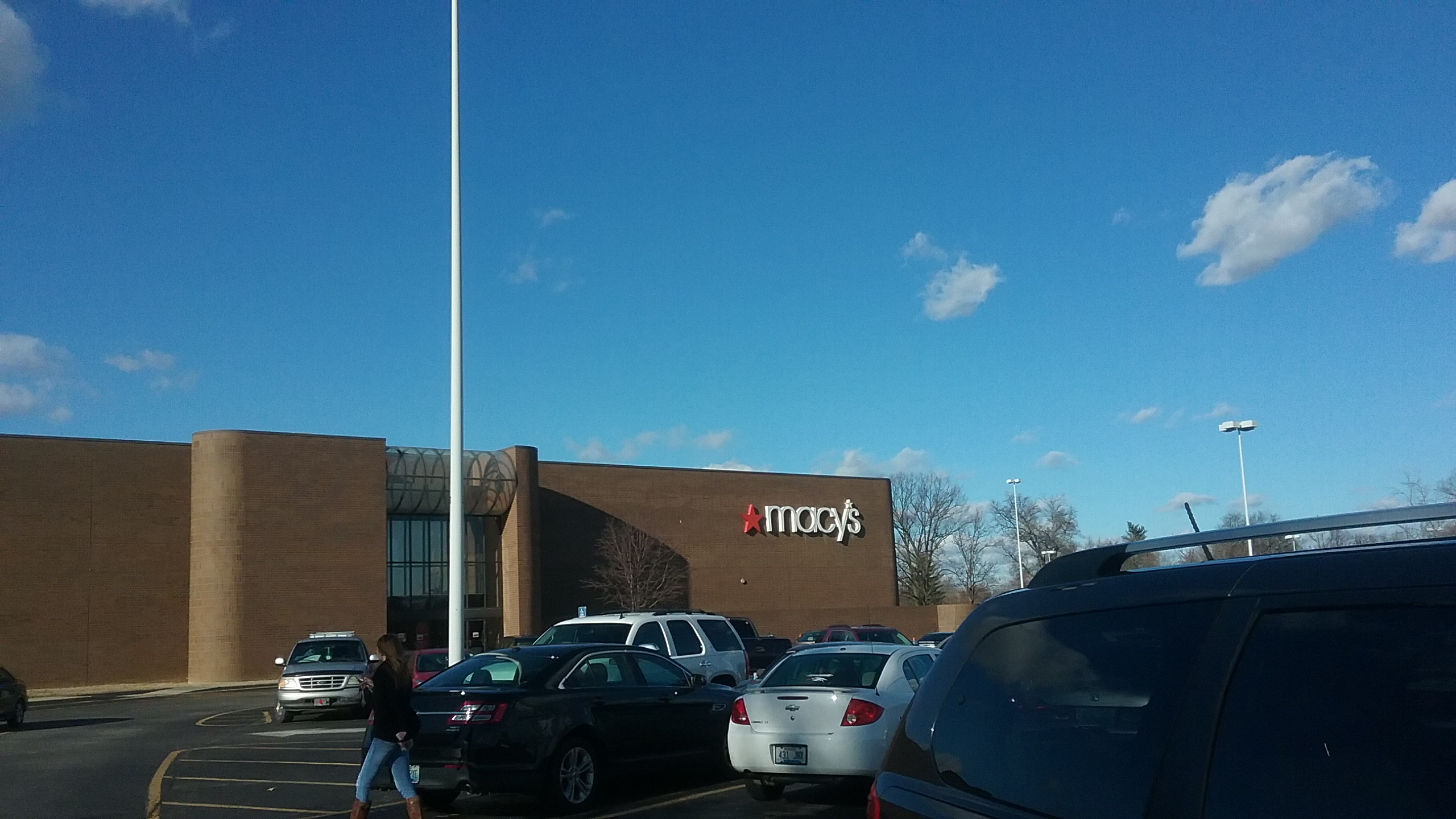 This photo of the Jefferson Mall Macy's was taken on December 29, 2016, four months before its closure